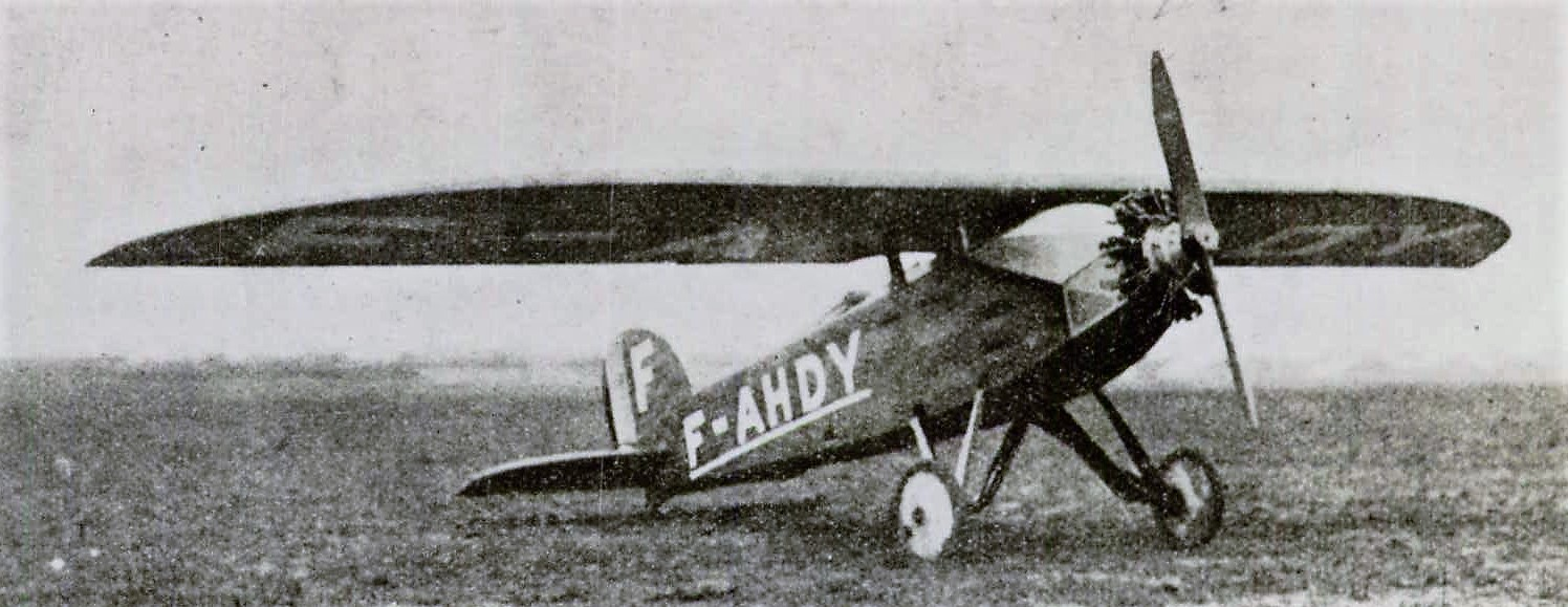 Albert TE photo from NACA Aircraft Circular No.23